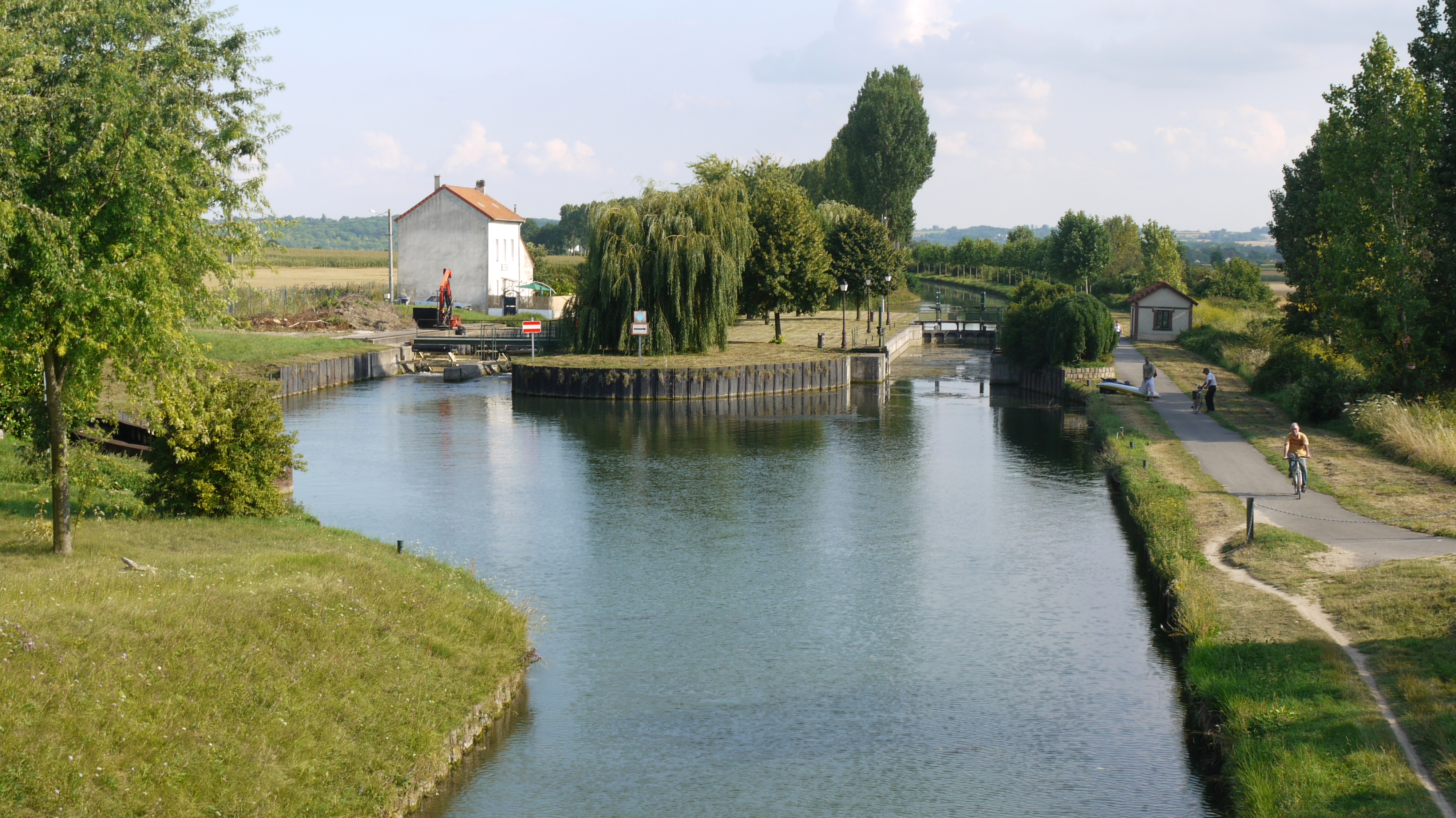 Vignely lock on the canal de l'Ourcq, Ile de France, France